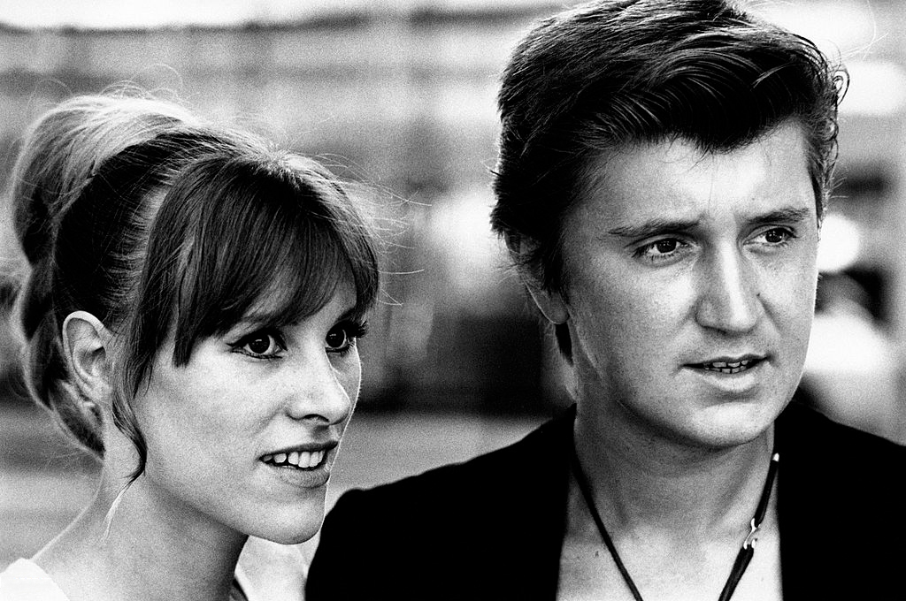 Italian singer Bobby Solo (Roberto Satti) standing with his wife Sophie. Rome, 1974